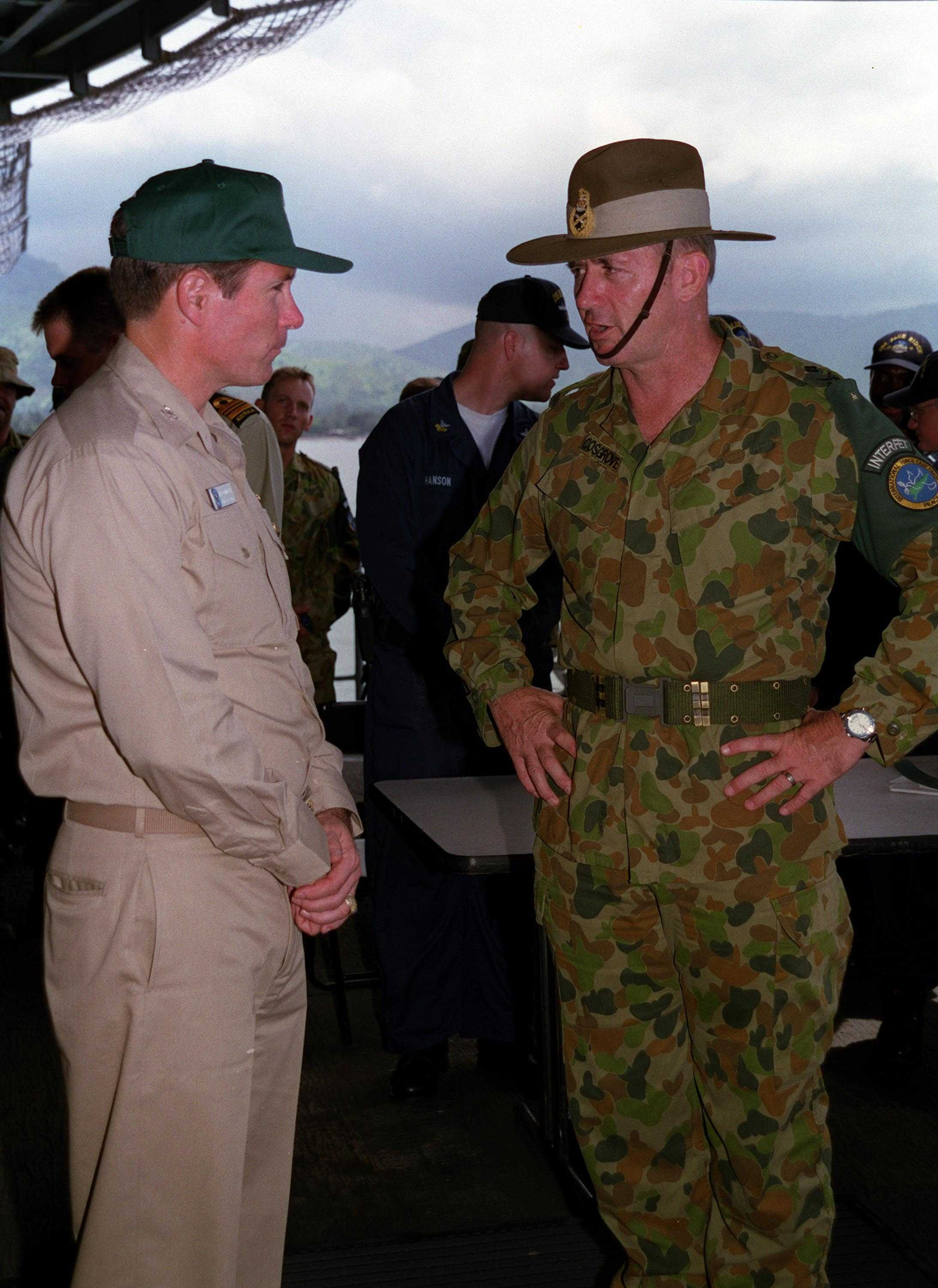 USS Blue Ridge (LCC-19), 11 February 2000, Dili, East Timor--International Forces East Timor Major General Cosgrove after Commander Seventh Fleet staff briefing.